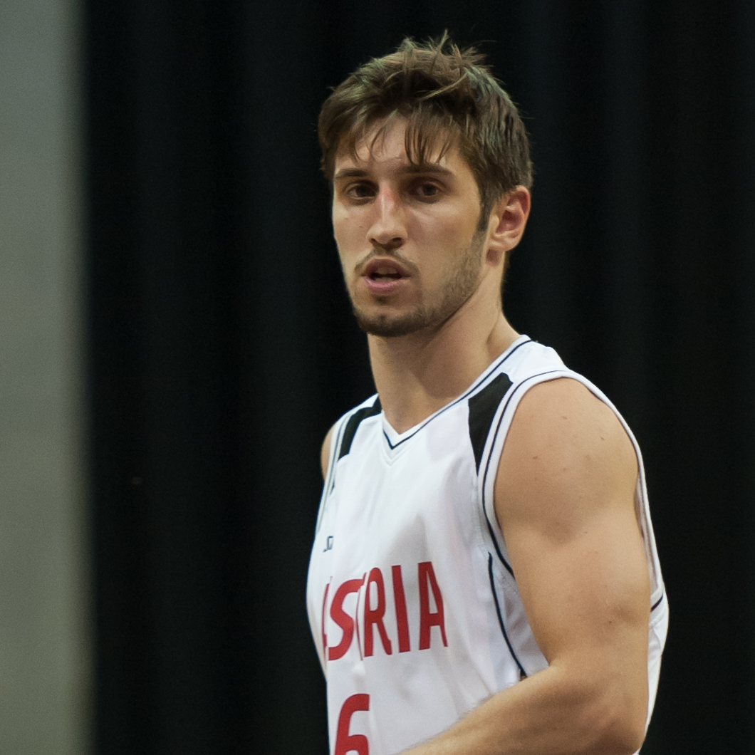 Basketball friendly Austria - Japan, 2015-08-08: Daniel Friedrich